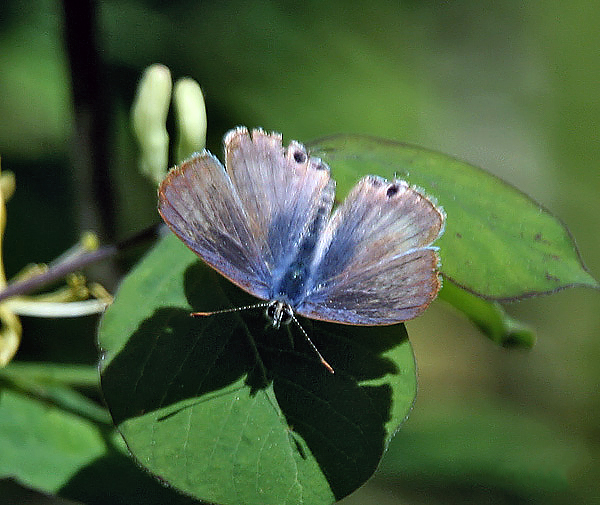 Pea Blue Lampides boeticus . Shot taken on way to Guna Pani(around 7500 ft.), Kullu distt. of Himachal Pradesh, India during Sar Pass Trek.